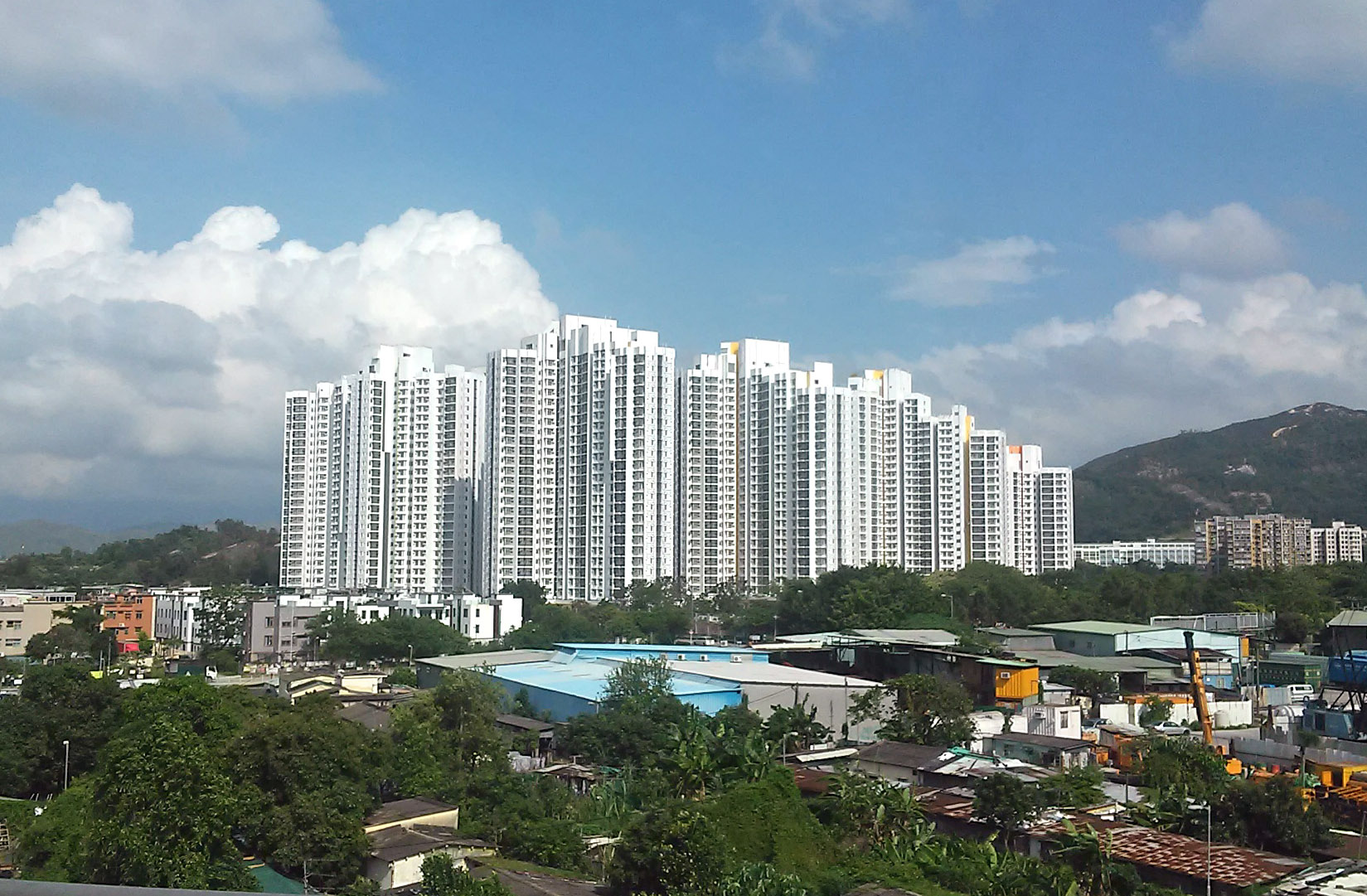 Hung Fuk Estate, photographed from the West Rail Line.